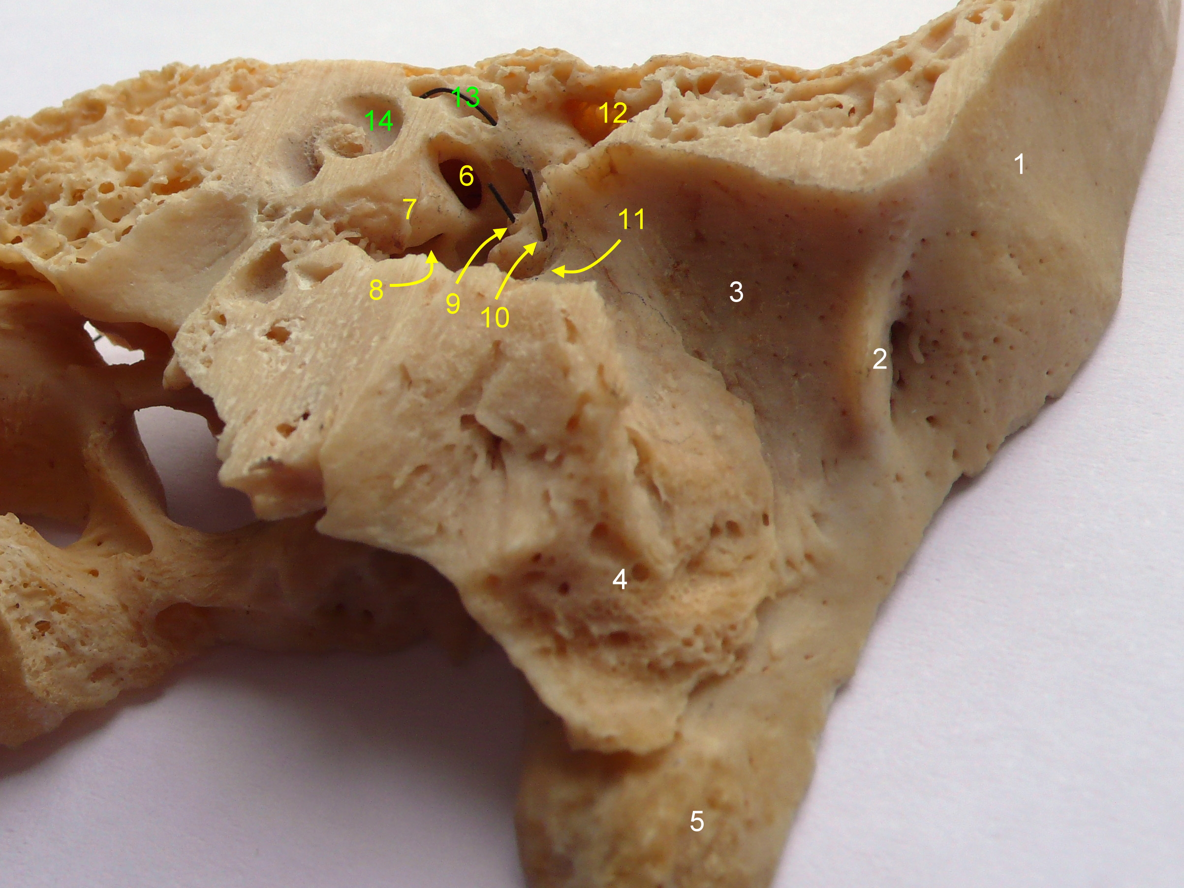 GERMAN ~ Schnitt durch das Schläfenbein (Os temporale), Ansicht von vorne 1 = Schläfenbeinschuppe (Pars squamosa) 2 = Spina suprameatalis 3 = äußerer Gehörgang (Meatus acusticus externus) 4 = Pars tympanica des Schläfenbeines 5 = Warzenfortsatz (Processus mastoideus) 6 = Fenestra vestibuli [ovalis] 7 = Promontorium 8 = Fenestra cochleae [rotunda] 9 = Eminentia pyramidalis 10 = Öffnung für die Chorda tympani (Apertura tympanica canaliculi chordae tympani) 11 = Sulcus tympanicus (Knochenrinne für Trommelfell) 12 = Antrum mastoideum 13 = Canalis nervi facialis 14 = Cochlea ENGLISH ~ Section through the temporal bone (temporal bone), front view 1 = squama (squama) 2 = Spina suprameatalis 3 = external auditory canal (external acoustic meatus) 4 = tympanic part of Schäfenbeines 5 = mastoid (mastoid process) 6 = Fenestra vestibuli [ovalis] 7 = promontory 8 = Fenestra cochleae [Rotunda] 9 = eminentia pyramidalis 10 = opening for the chorda tympani (Apertura tympanic canaliculi chordae tympani) 11 = sulcus tympanic (bony groove for tympanic membrane) 12 = mastoid antrum 13 = facial nerve canal 14 = cochlear